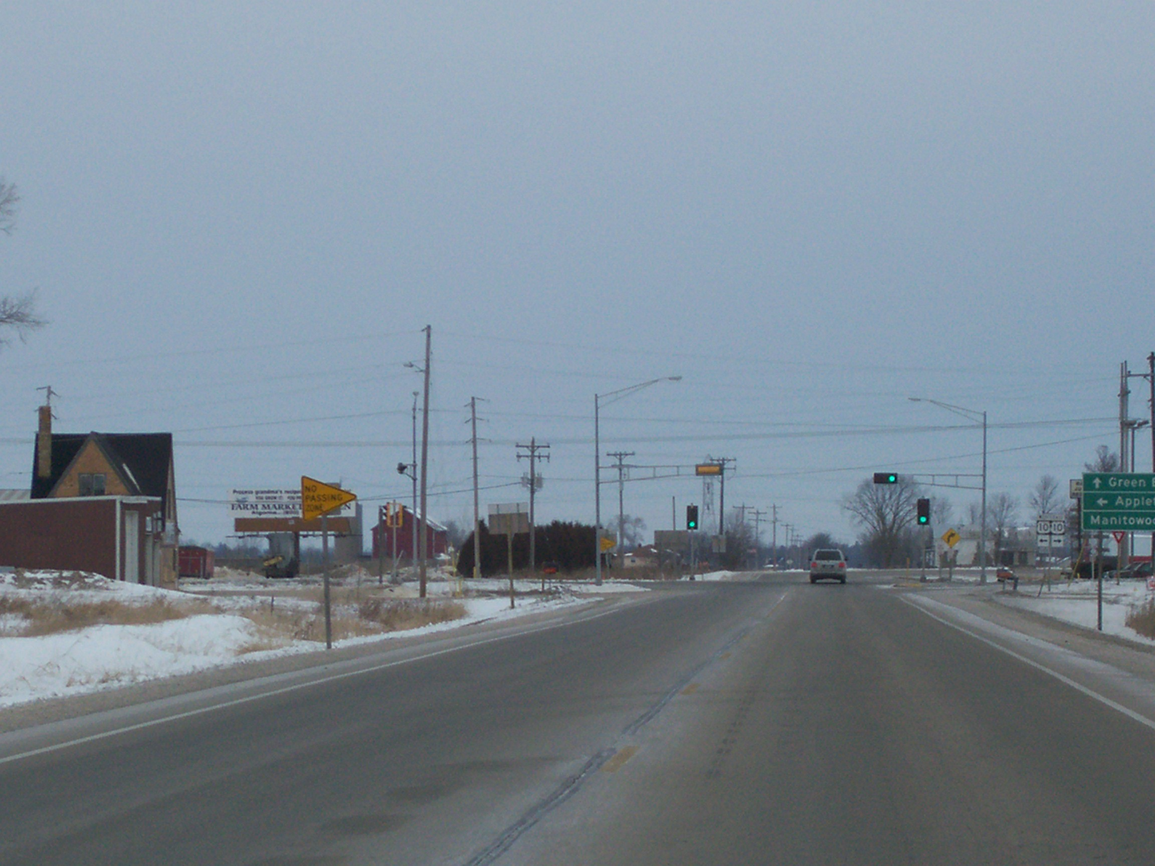 Category:Images of Wisconsin highways (Original text: Looking north while travelling on Wisconsin Highway 32 and Wisconsin Highway 57 at its intersection with U.S. Route 10 in Forest Junction, Wisconsin, USA.)